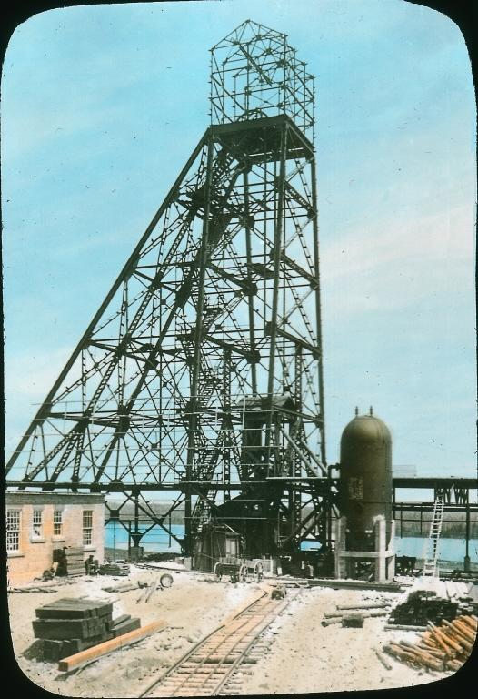 Photograph, glass lantern slide, Main shaft, Horne mine property, Noranda Smelter, QC, about 1926, Anonymous, Silver salts and transparent ink on glass - Gelatin dry plate process - 8 x 10 cm